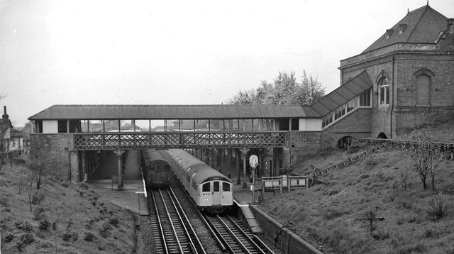 Buckhurst Hill Station. View southward, towards Stratford and London; ex-Great Eastern, London - Stratford - Epping line, electrified and transferred to LPTB by 21/11/48 as far as Loughton, on to Epping 25/9/49. The train is a Central Line 'tube' train bound for Epping